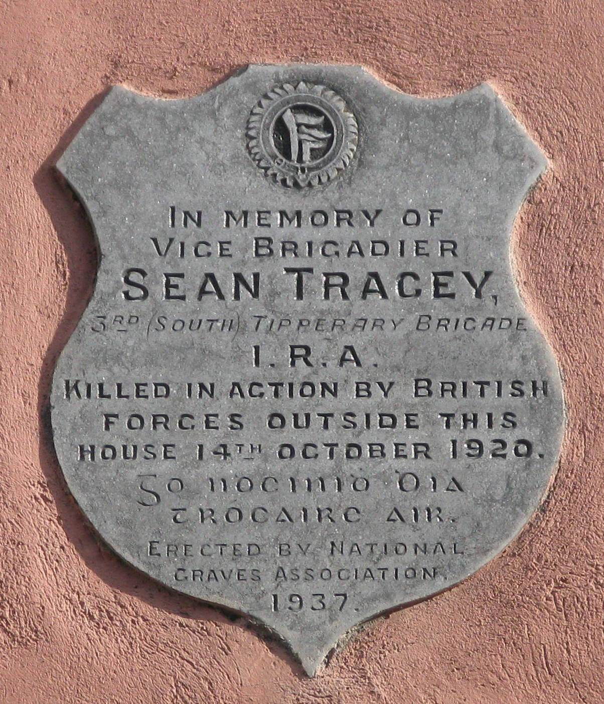 Memorial plaque to 3rd Tipperary Brigade, IRA leader Seán Treacy (misspelled Tracey) outside No. 94 Talbot Street, Dublin where he was killed in an exchange of fire with British forces during the Irish War of Independence in 1920